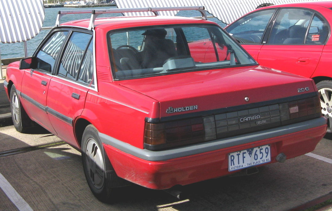 1987-1989 Holden JE Camira